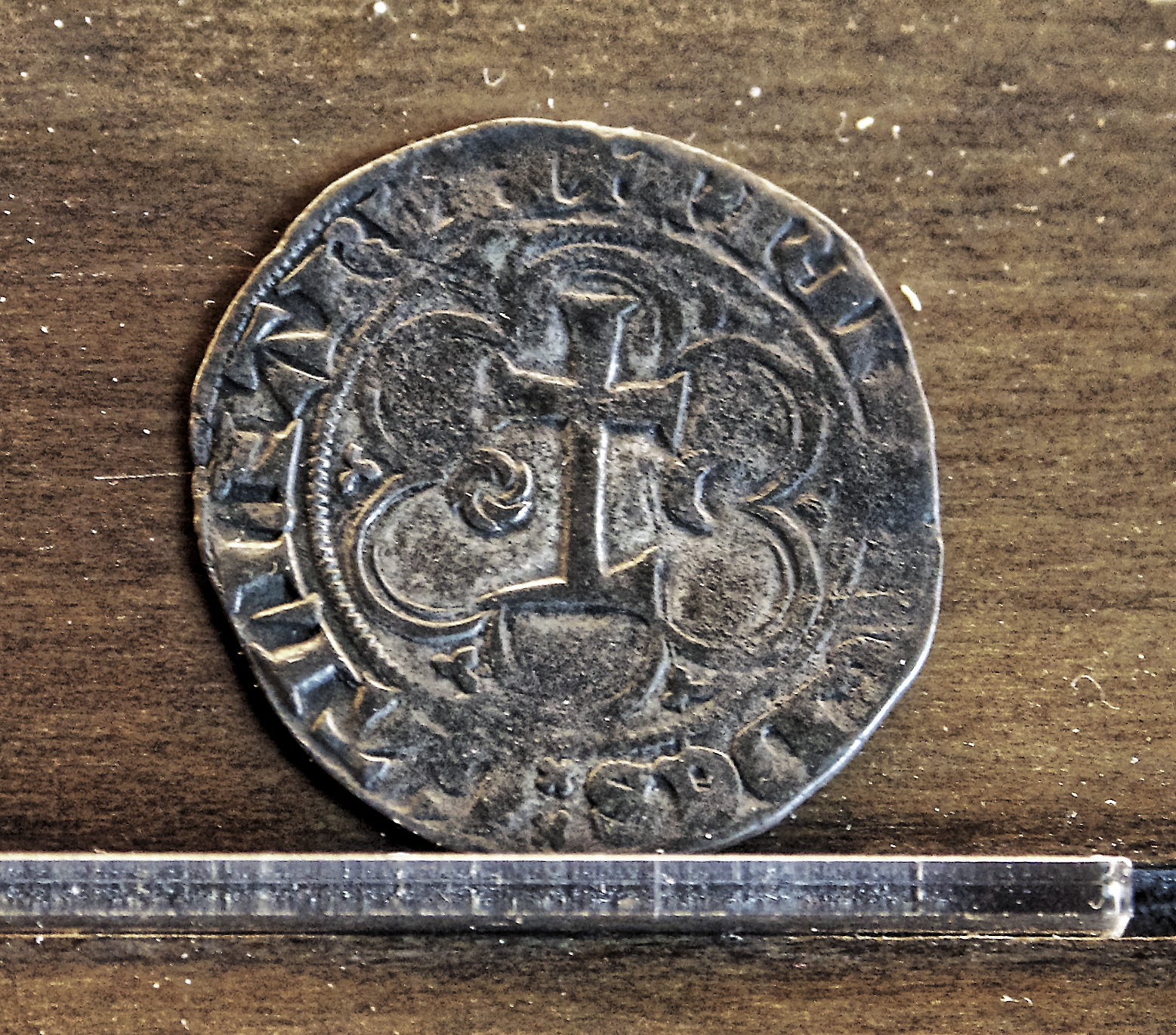 Fort lyonnais, monnaie anonyme frappée pour le compte de l'église de Lyon, archevêque et chapitre de chanoines entre le 11 et le 14e siècle. Conservé au médailler du Musée des beaux-arts de Lyon ; salle publique.